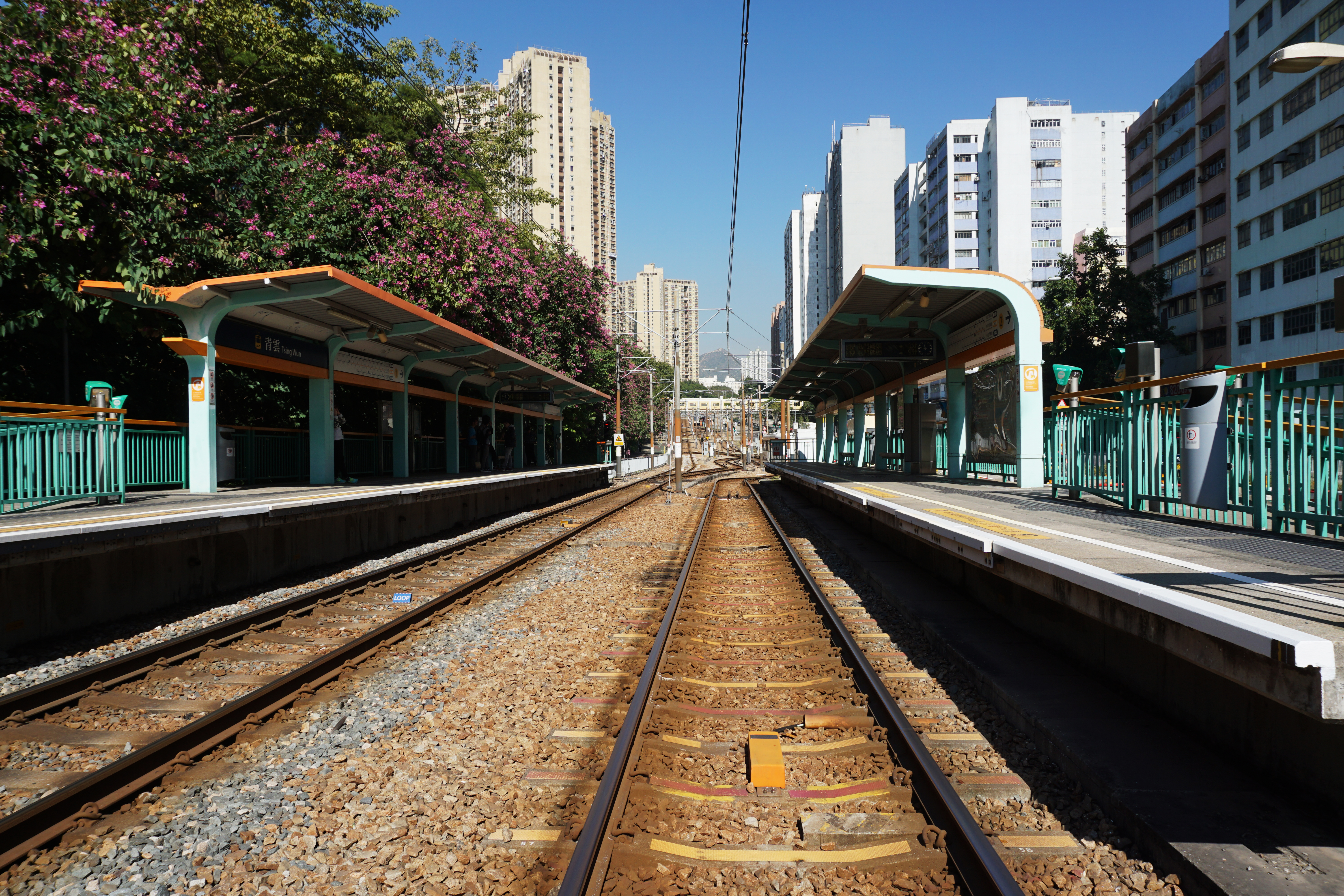 Tsing Wun Stop in Tuen Mun, Hong Kong.